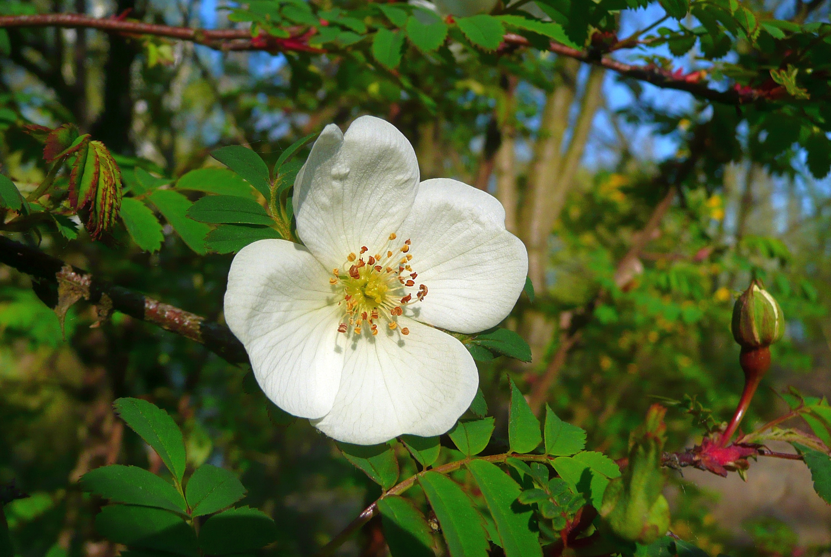 Rosa sericea (Silky rose), flower, Zoological and botanical garden Plzen.